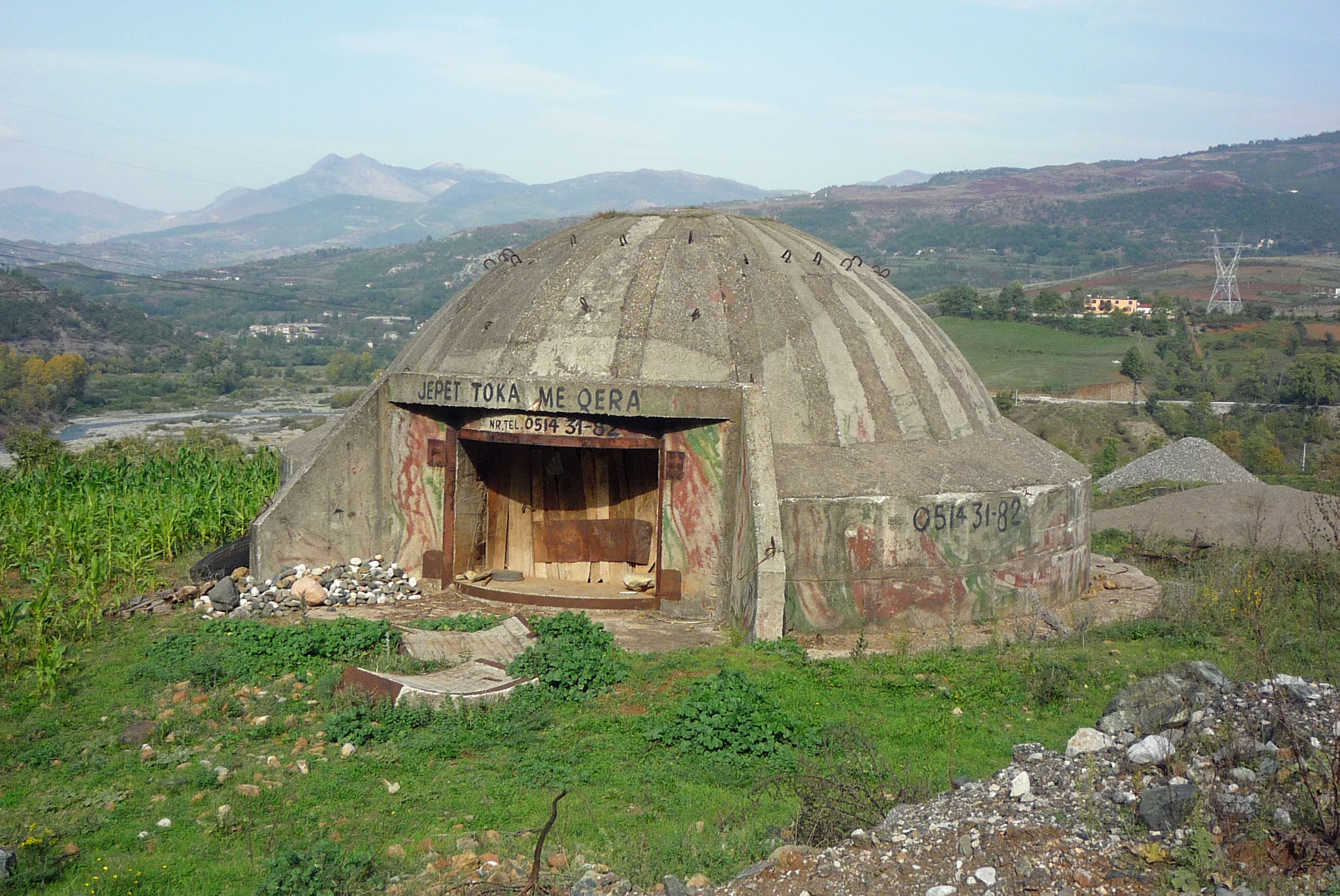 Old bunker along the highway to Macedonia, Albania